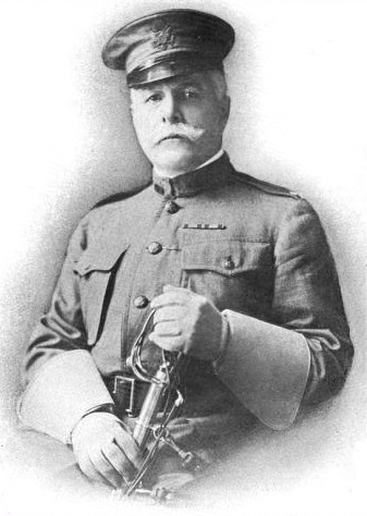 Montgomery M. Macomb on duty in Hawaii as a Brigadier General